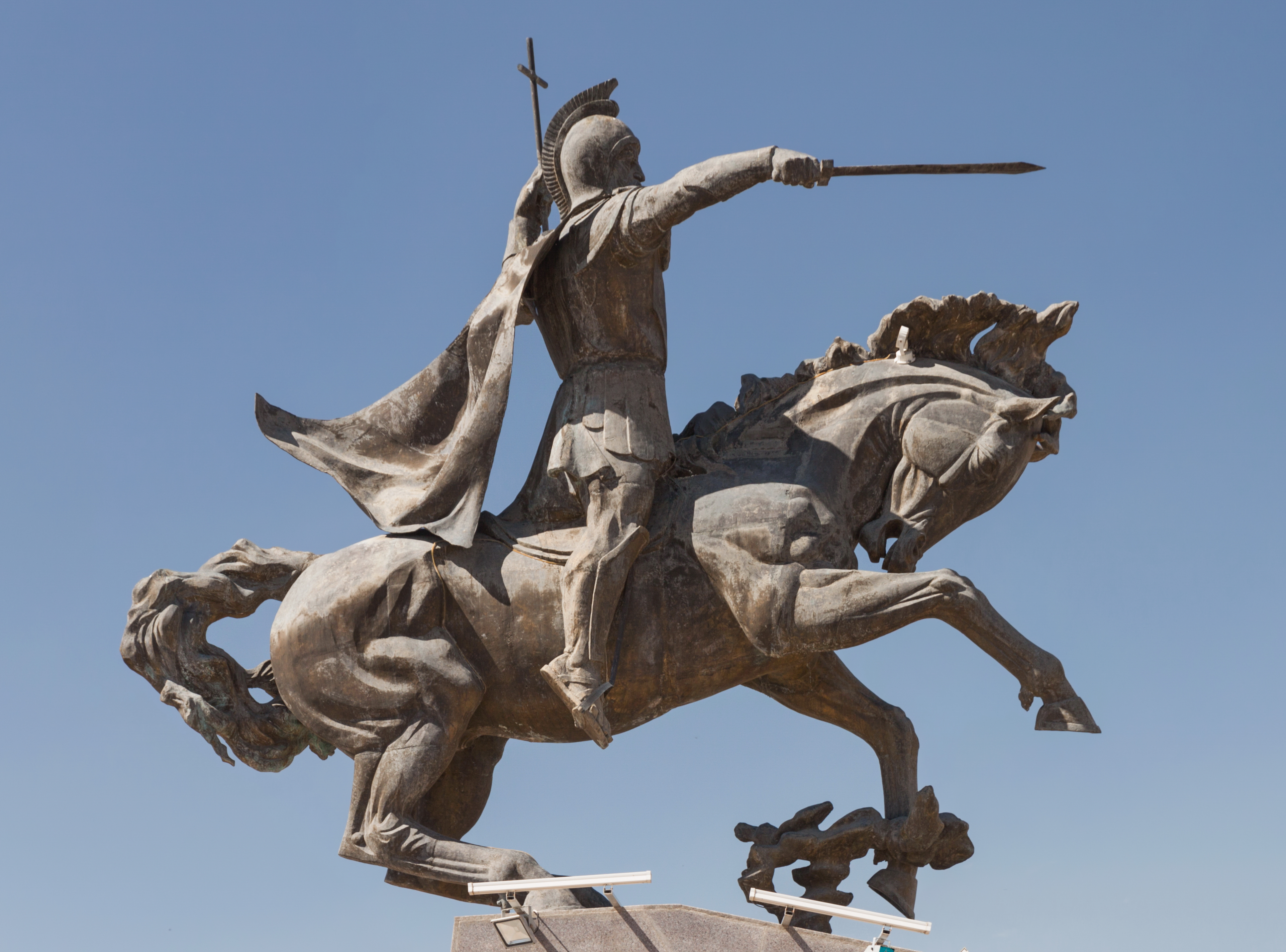 Vardan Mamikonian statue. Gyumri, Shirak Province, Armenia.